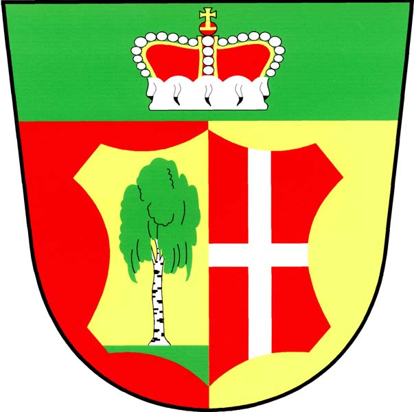 Coat of amrs of Březí , District Prague-East, Czech Republic